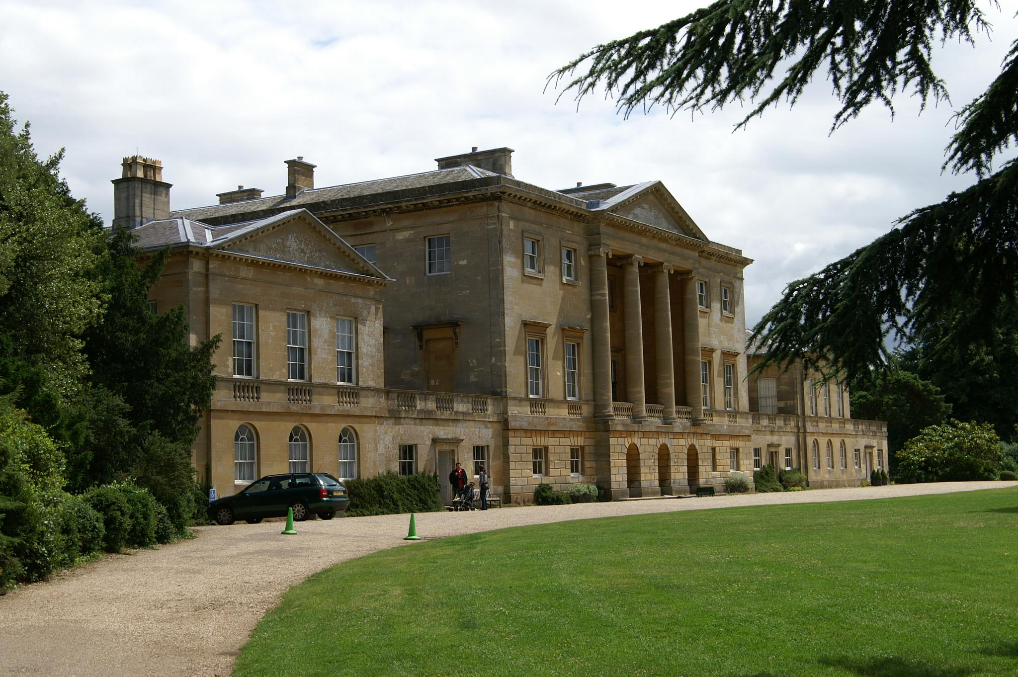 Berkshire See where this picture was taken. [?]